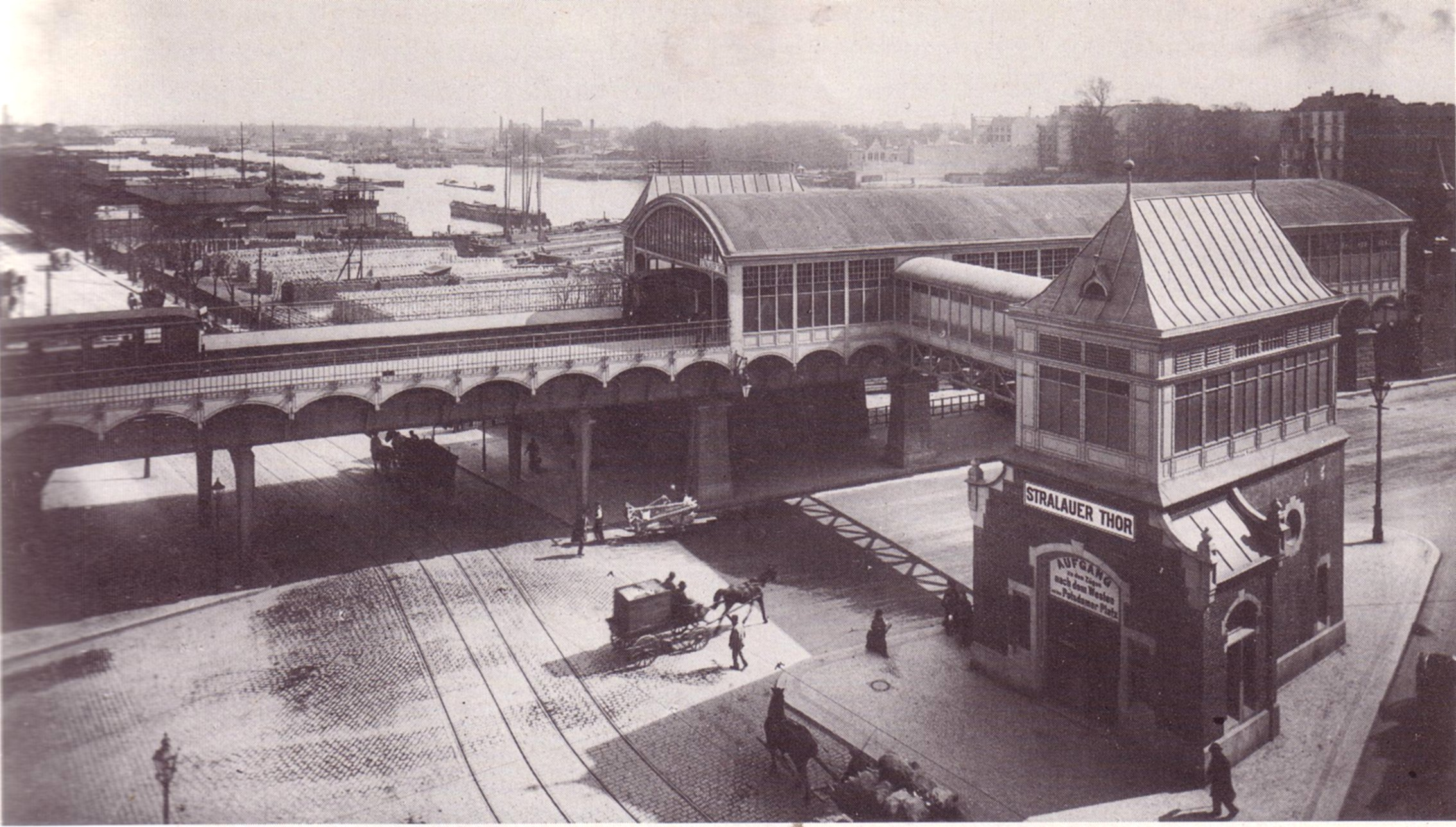 the elevated U-Bahn station Stralauer Tor (later Osthafen) in Berlin